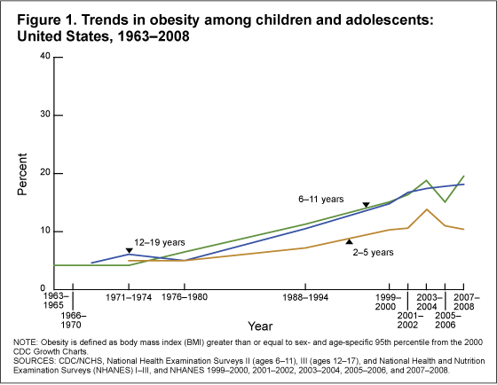 This is a diagram depicting the rise of overweight among ages 2-19 in the US.